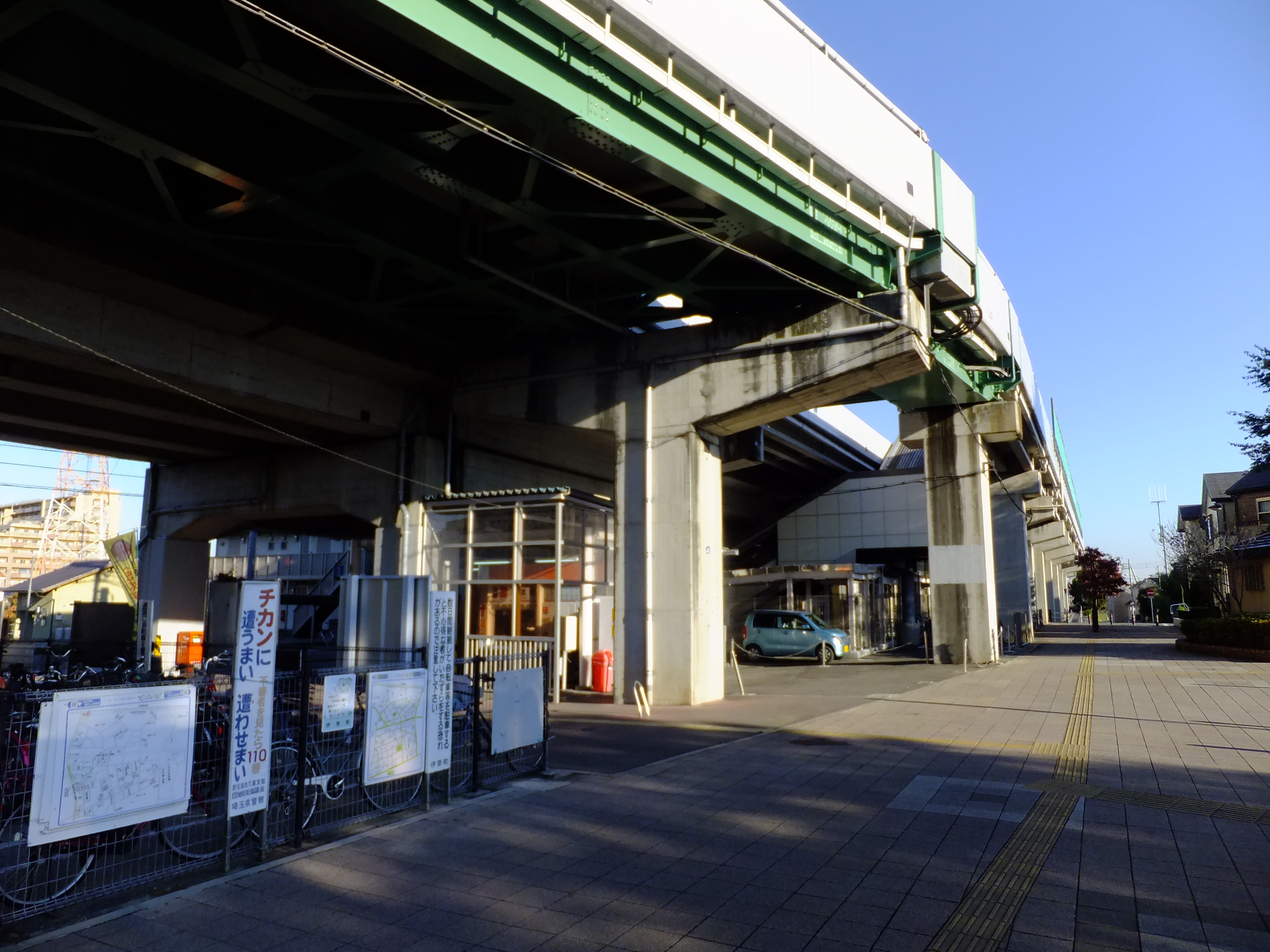 Hanuki Station on the New Shuttle Line, in Ina, Saitama, Japan